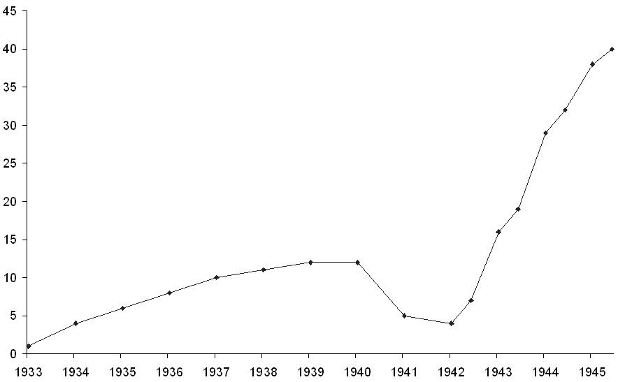 Graph of the number of British S-class-submarines in service with respect to time.